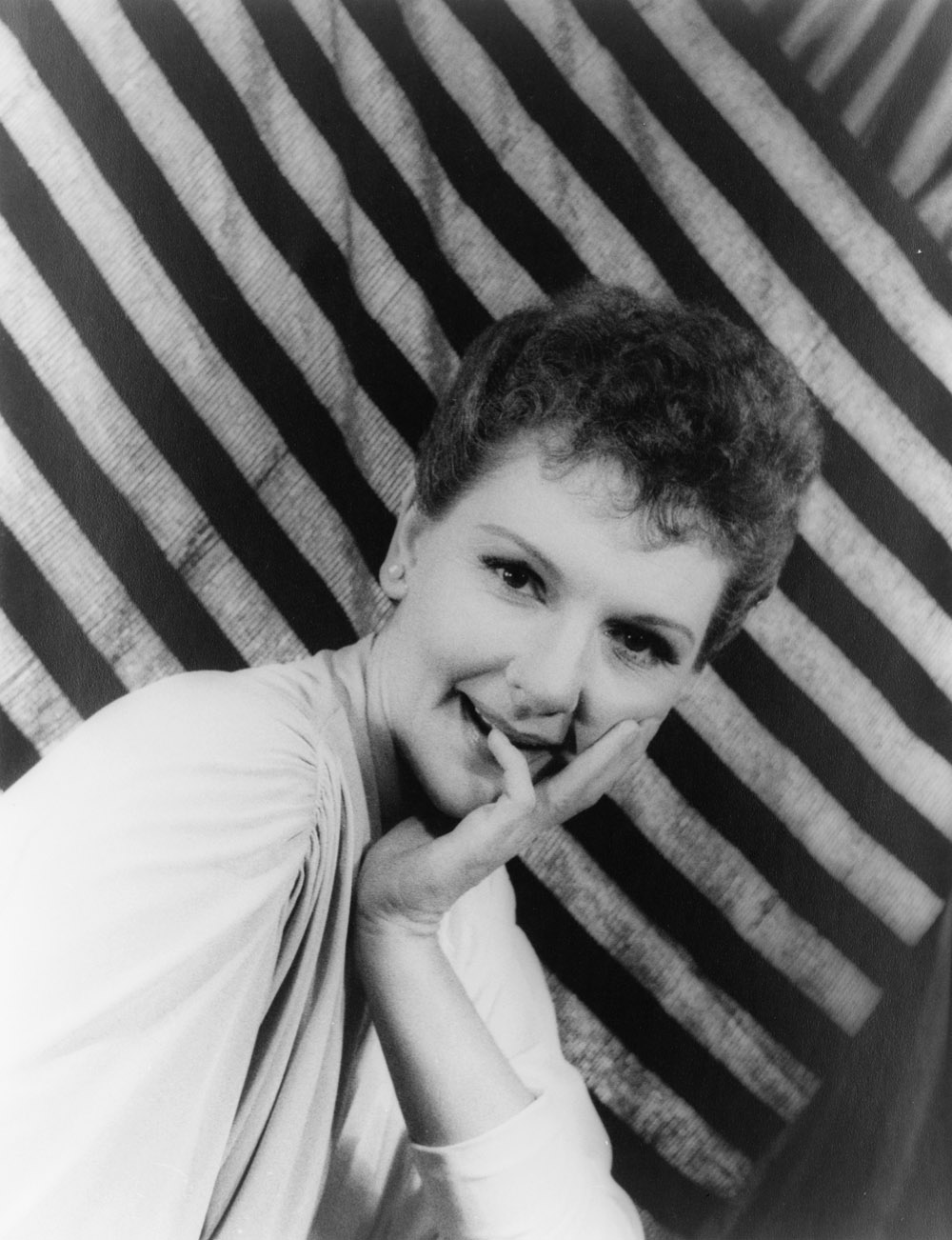 Mary Martin photographed by Carl Van Vechten, 1949 Jan. 12. Collection of the Library of Congress: Portrait of Mary Martin